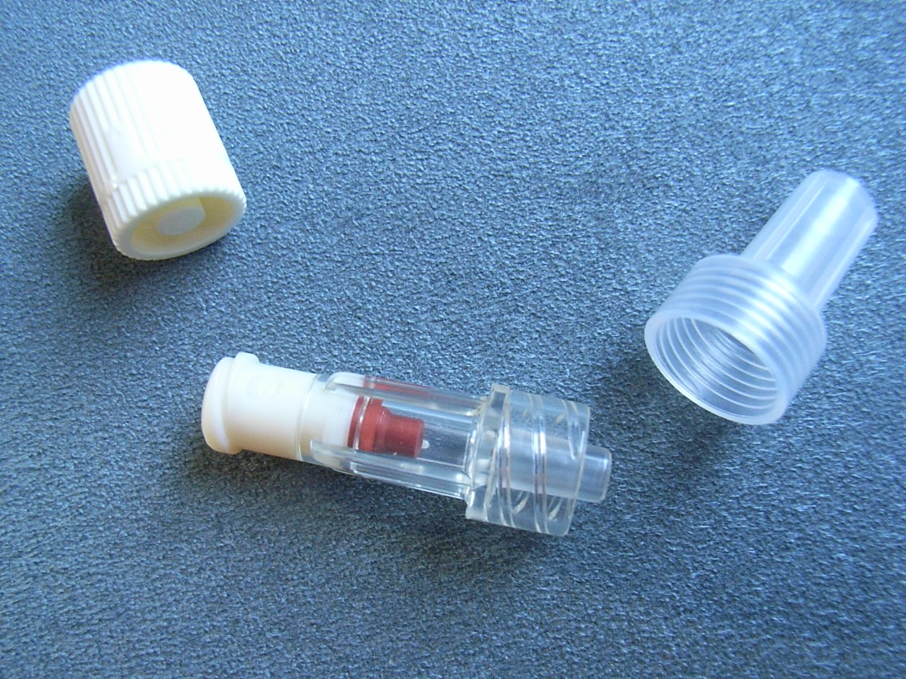 non-return valve for intravenous therapy